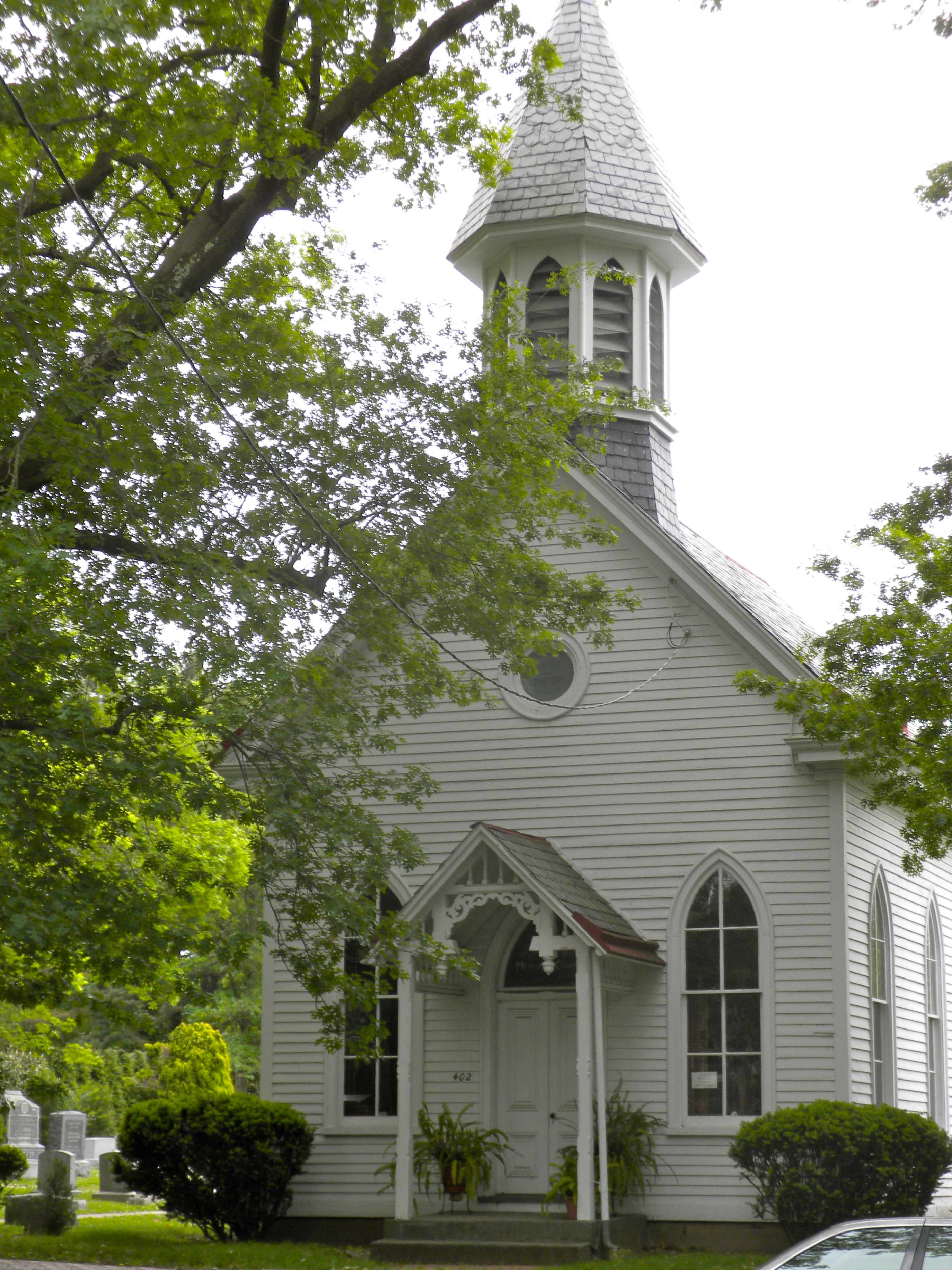 Chapel in the Baptist Cemetery on 402 King's Highway East in Haddonfield, NJ. This is in the Haddonfield Historic District, a HD since July 21, 1982. The HD is roughly bounded by Washington, Hopkins, Summit, and E. Park Aves., and Kings Hwy. Haddonfield